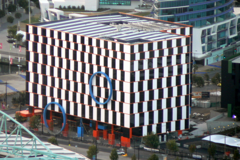 Port 1010 building in the Docklands region of Melbourne, Australia.